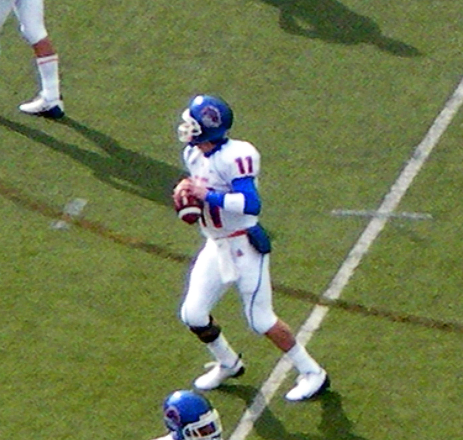 Kellen Moore during pregame warmups at nevada in 2008